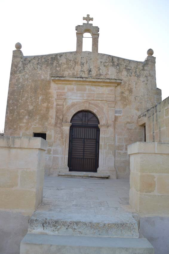 Ħal-Millieri